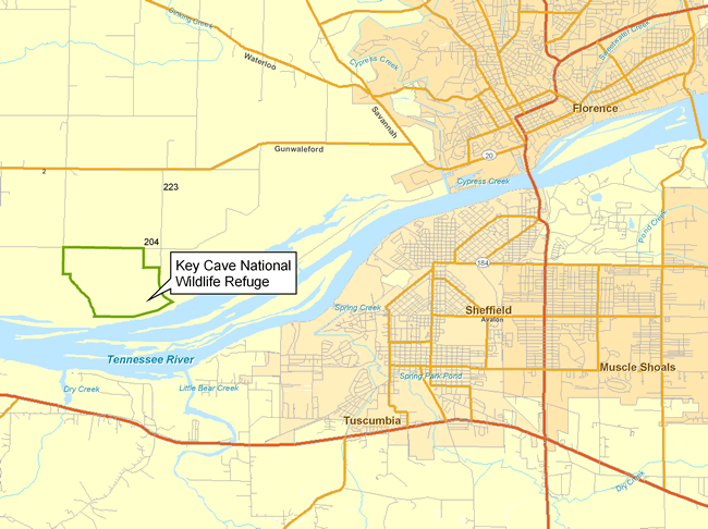 Key Cave National Wildlife Refuge